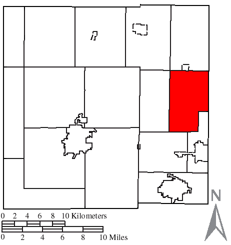 Made by the US Census and modified by myself